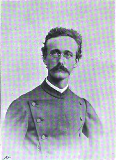 Photograph of Dr. Karl Sapper, German Mesoamericanist, from his Das Nordliche Mittel-Amerika nebst Einem Ausflug nach dem Hochland von Anahuac, published 1897.